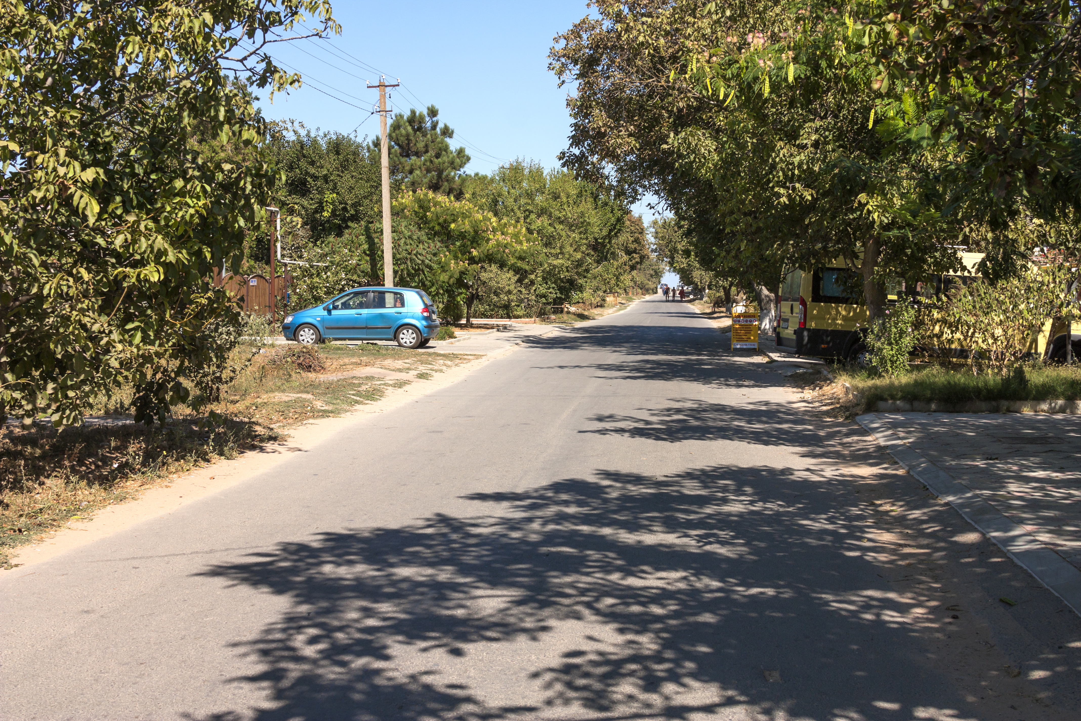 Road to the sea. Kuchugury village, Temryuk district, Krasnodar region